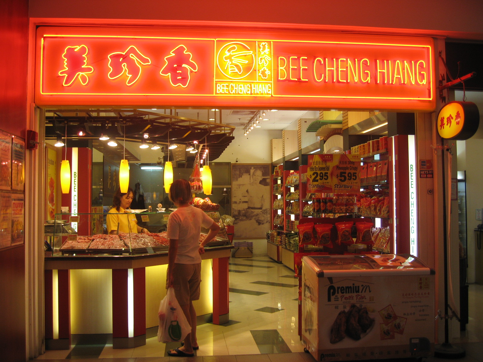 A Bee Cheng Hiang store at 1 Kim Seng Promenade, #B1-05 Great World City, Singapore.